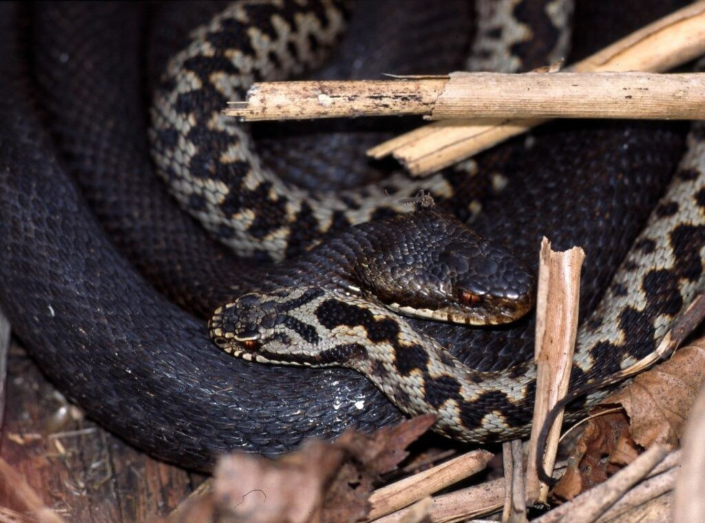 Adders (Vipera berus) after mating